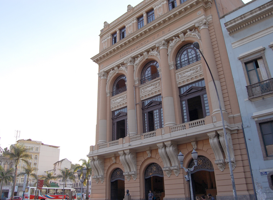 Escola de Música (Music School) of the Federal University of Rio de Janeiro (UFRJ), Brazil